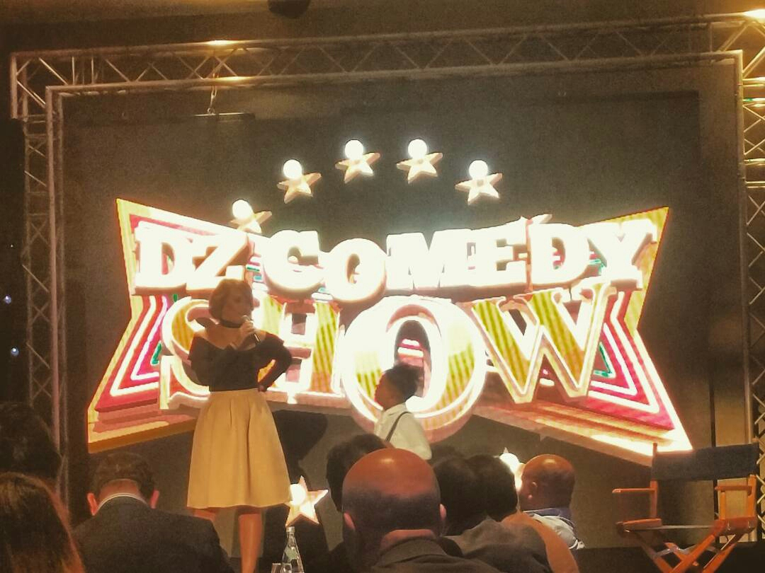 Presentation of DZ Comedy Show in the new programs launch gala, organised by Not Found Prod (by Wellcom Advertising).